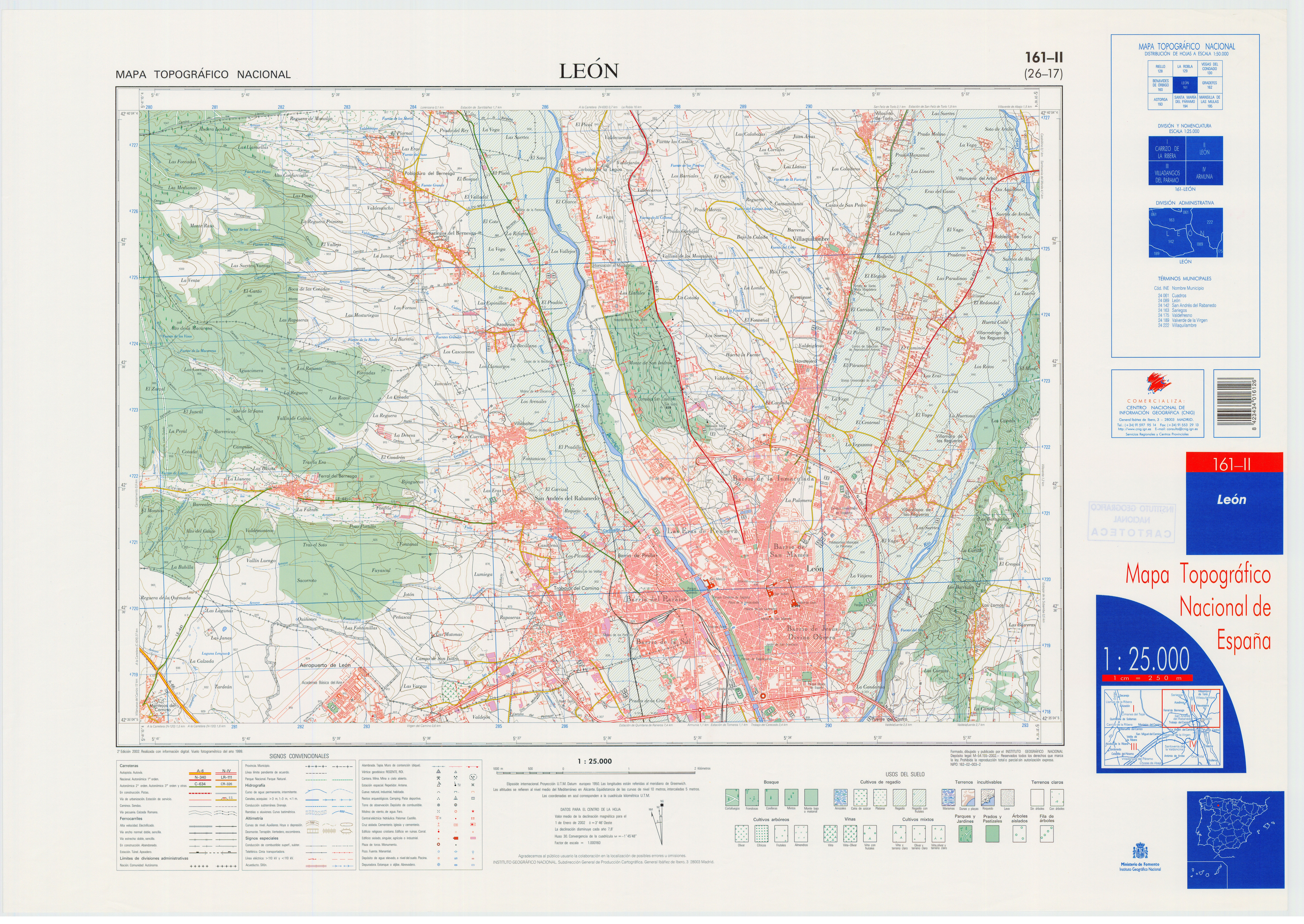 Fragment 0161c2 of the National Topographic Map of Spain in 2002 at a scale of 1:25000 printed and scanned with a resolution of 250 ppi. It shows Leon.